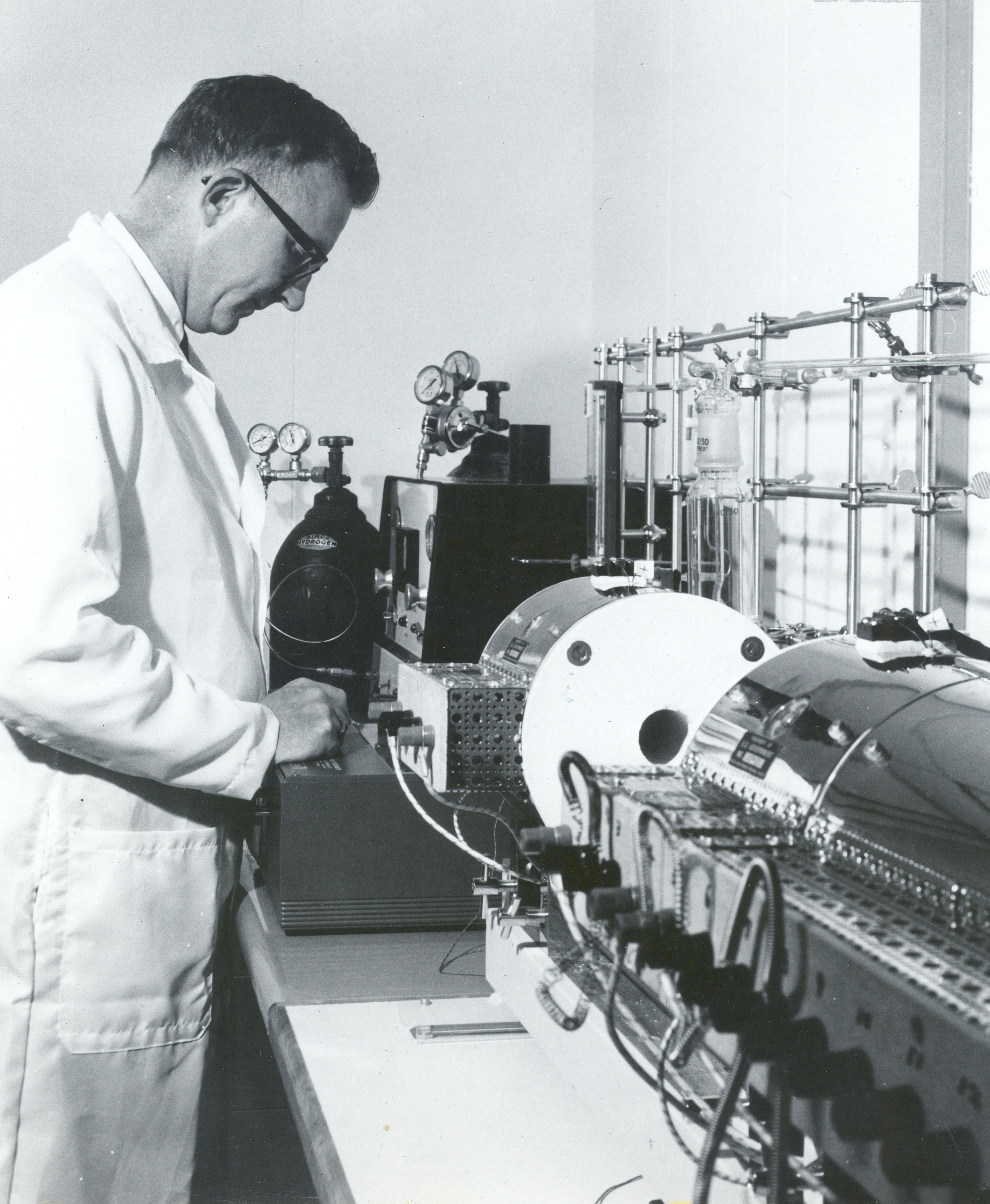 At the Electronics Research Center (ERC), crystals less than1/1,000th of an inch thick were "grown" for microwave experiments. The Center's scientists generated higher frequencymicrowaves which were important for future NASA missions in spacecraft transmitters, because they were expected to improvethe efficiency of microwave signal transmission in space. ERCopened in September 1964 and has the particular distinction of being the only NASA Center to close, shutting down in June 1970. Its mission was to develop new electronics and training newgraduates as well as NASA employees. The ERC actually grew whileNASA eliminated major programs and cut staff in other areas. Between 1967 and 1970, NASA cut permanent civil service workersat all Centers with one exception, the ERC, whose personnel grewannually until its closure. For more information about the ERC, please